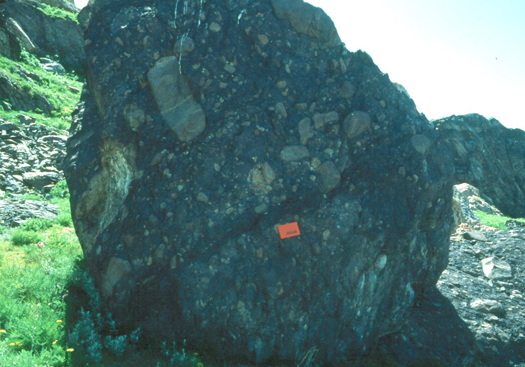 Boulder of diamictite of the Precambrian Mineral Fork Formation. It is lithified glacial till. Along the Elephant Head Trail, Antelope Island, Utah. Scale bar on notebook is 10 cm. Taken 2002.